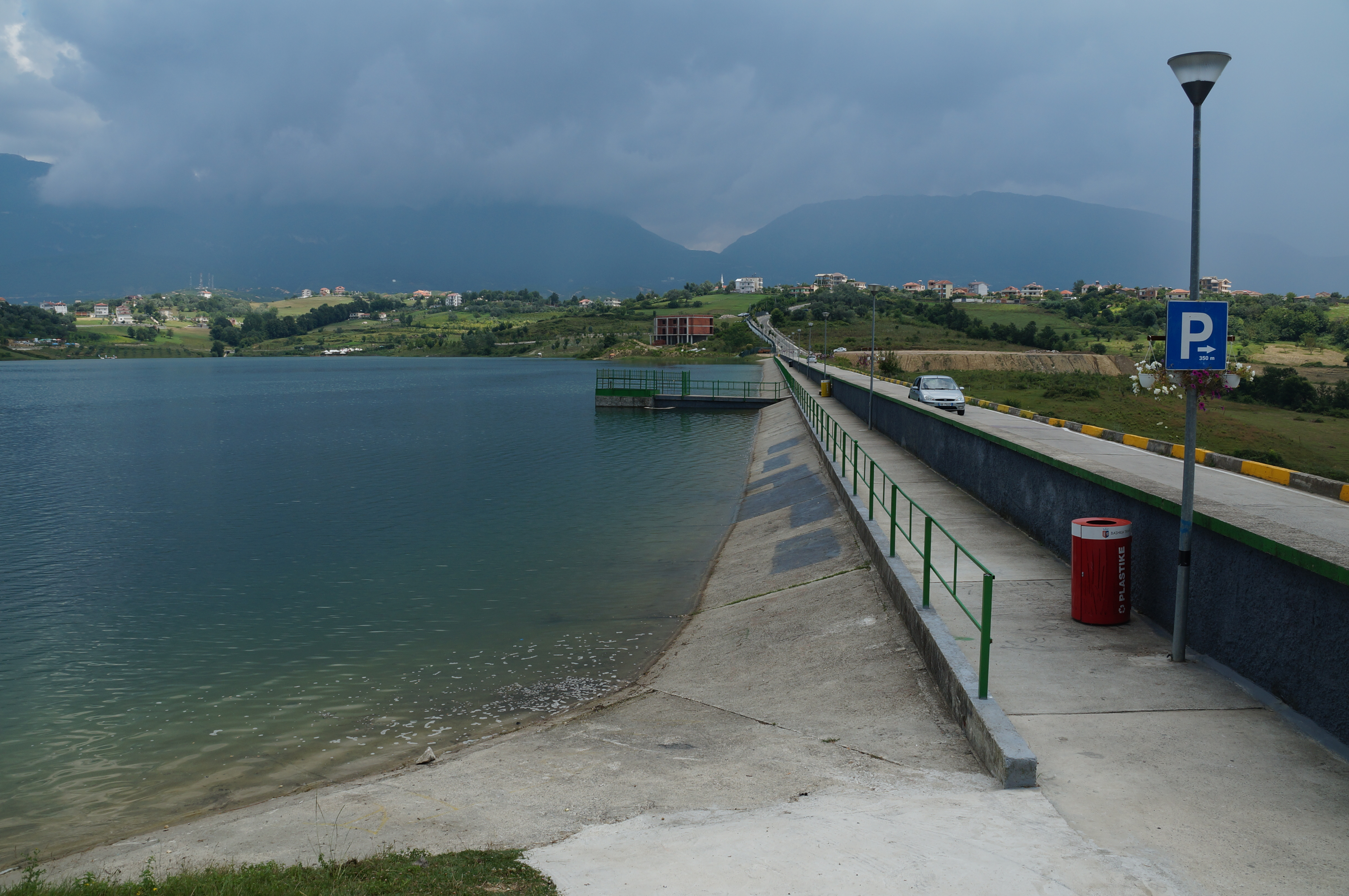 Dam of Farka Lake, Tirana, Albania